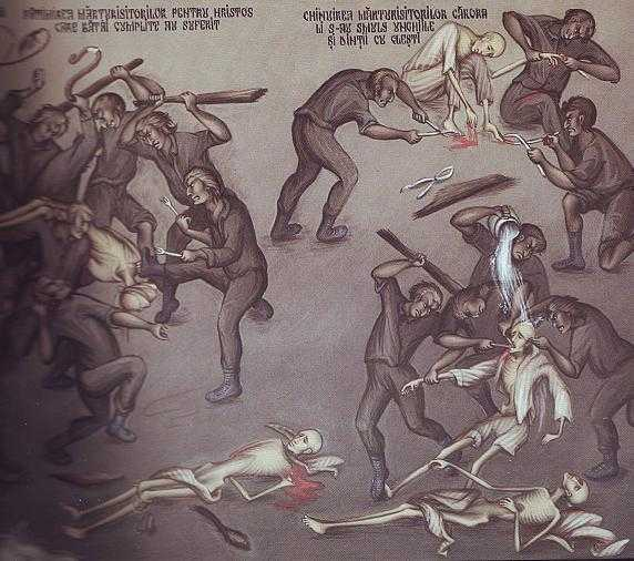 Detail from the Icon of the New Martyrs of the Romanian Land, Diaconești monastary (Bacău county) showing political detainees being tortured at Gherla prison by torturers of the Communist regime.